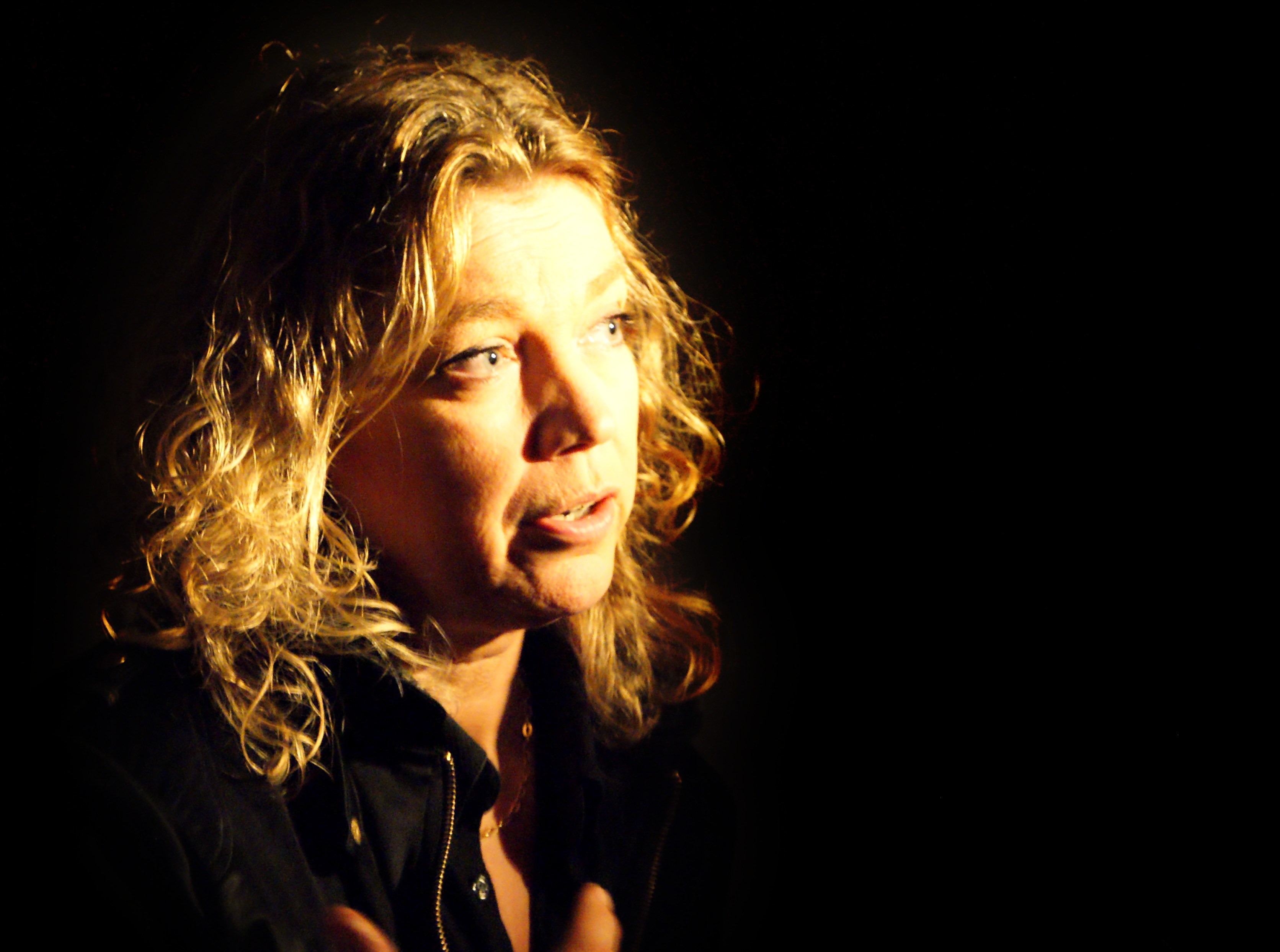 The Swedish photographer Elisabeth Ohlson Wallin.